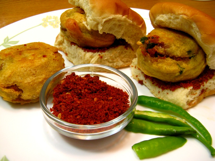 Vada pav or other wise called as Indian Burger. Made of Potatoes and spices.